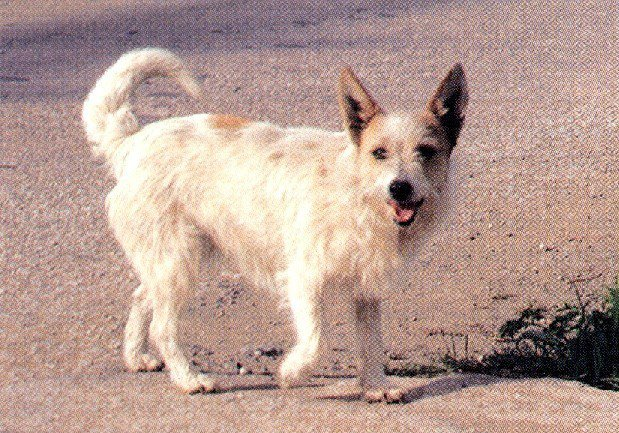 wirehaired Alopekis dog, cattle drover. Thessaly, Greece.